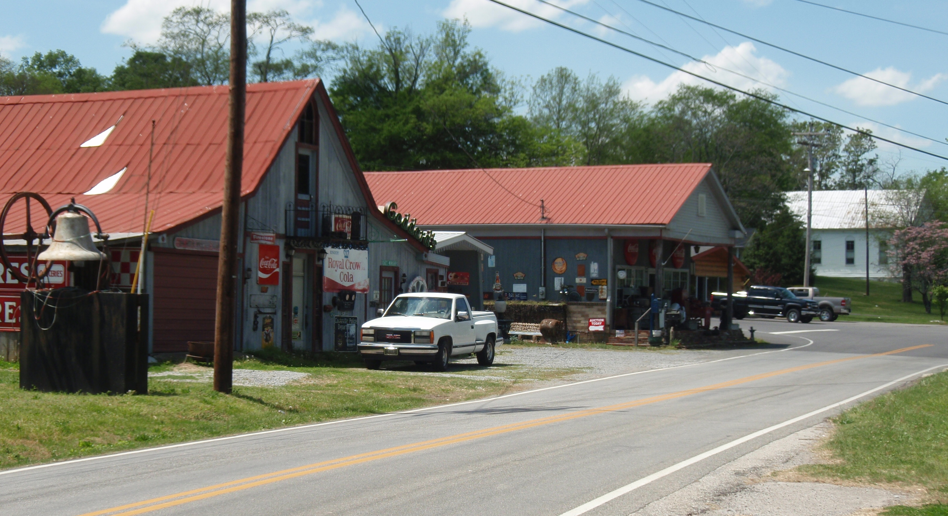 Shops in Tuckers Crossroads, Tennessee, U.S.A.